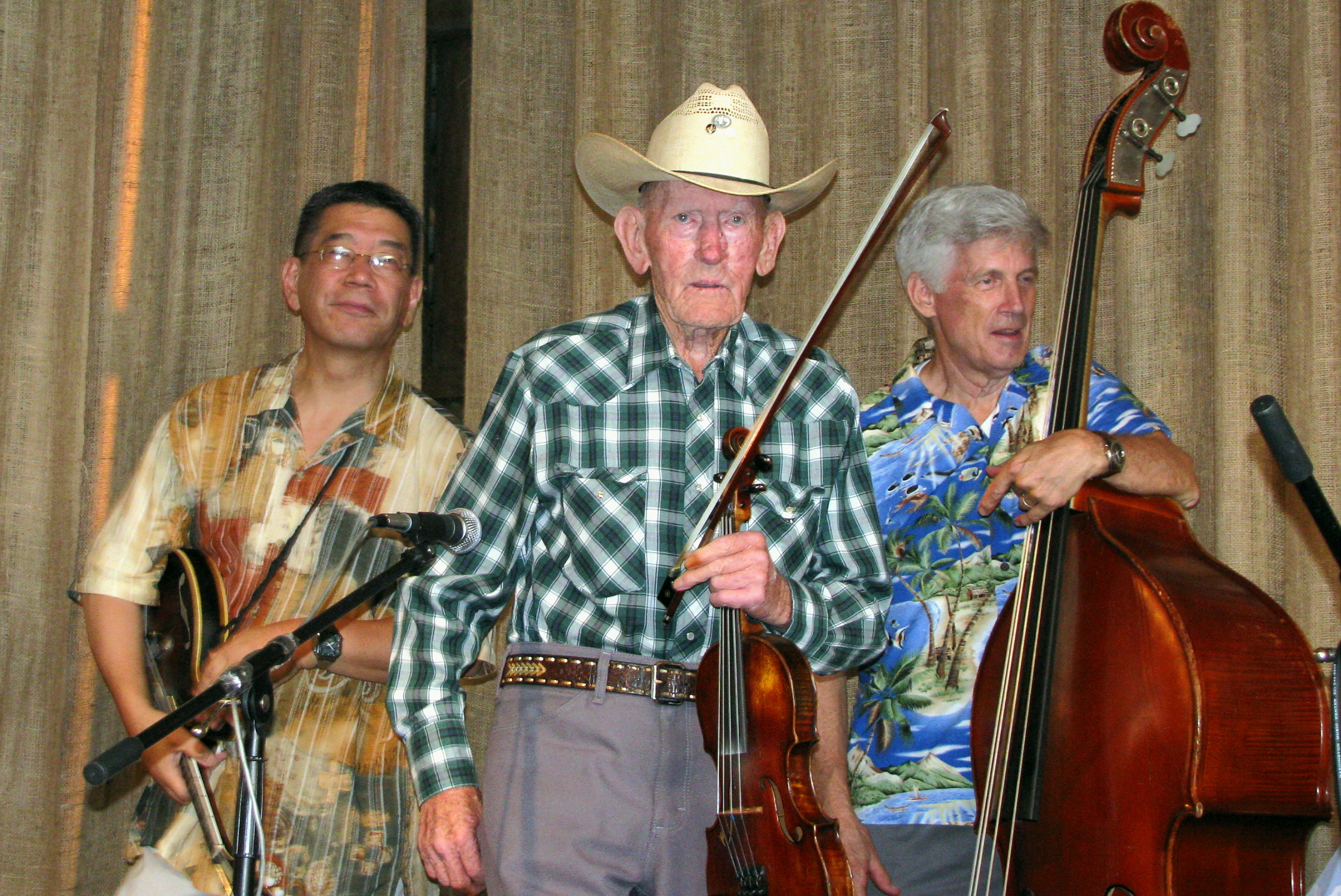 Kenny Baker-fiddle with Akira Otsuka and Tom Gray.